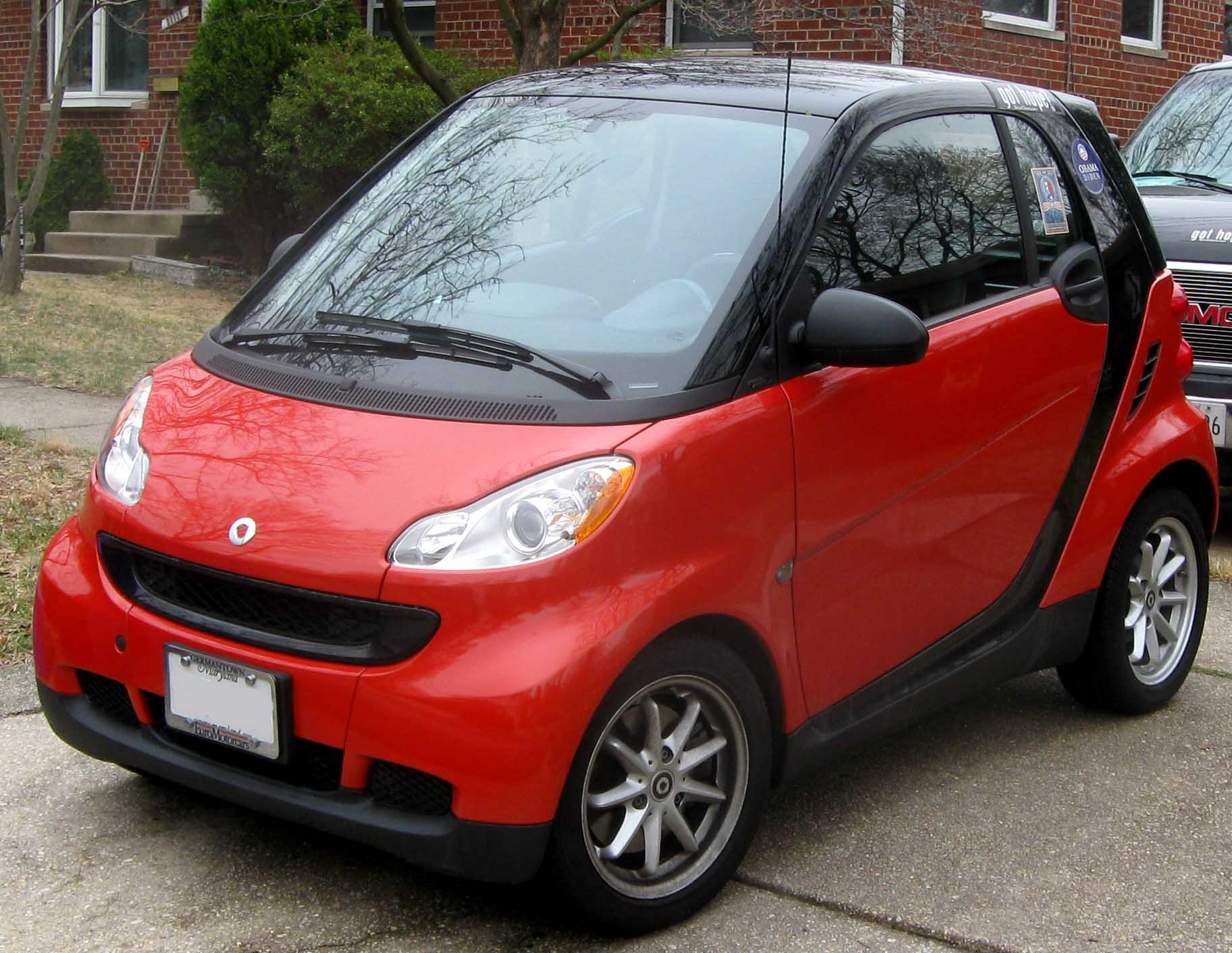 2008-2009 Smart ForTwo photographed in Rockville, Maryland, USA.